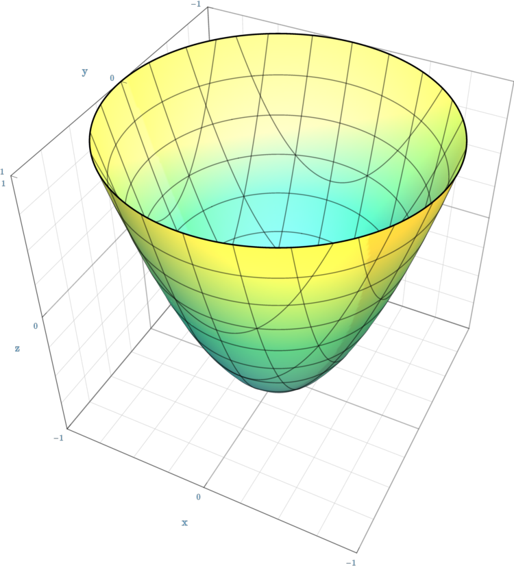 A circular paraboloid. Made with Mathematica.